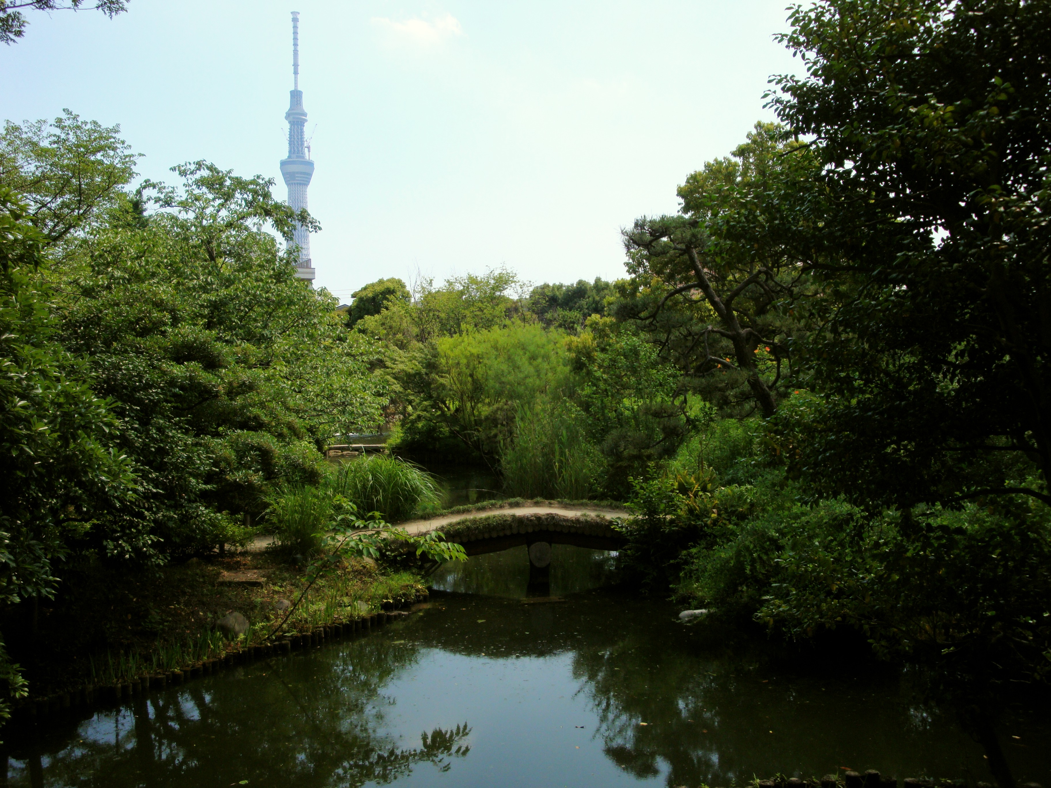 Mukojima-Hyakkaen Garden. Tokyo Sky Tree in the background.